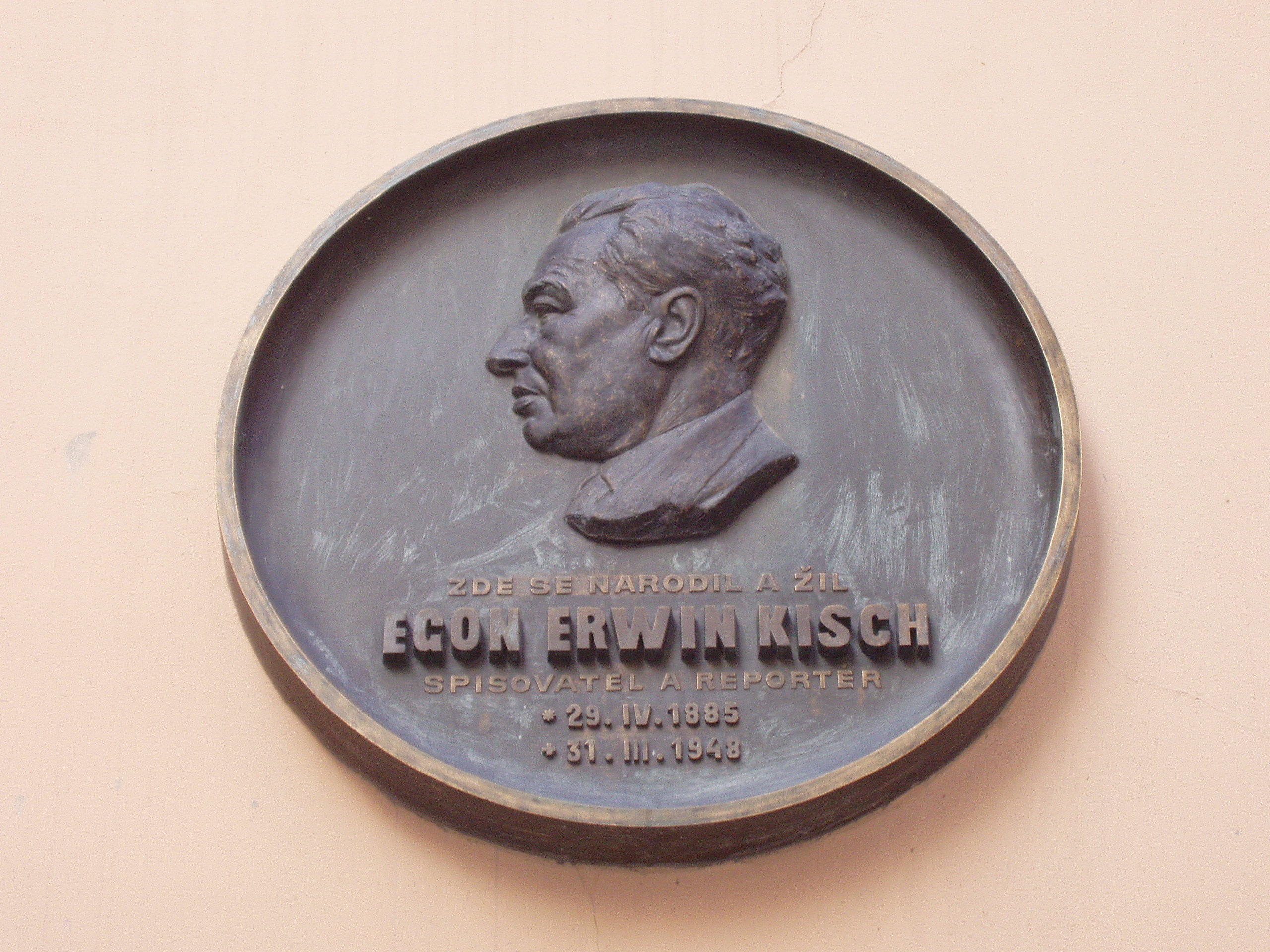 Egon Ervin Kisch Plaque at his birthplace in Prague